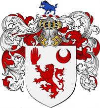 McKeough Family Crest